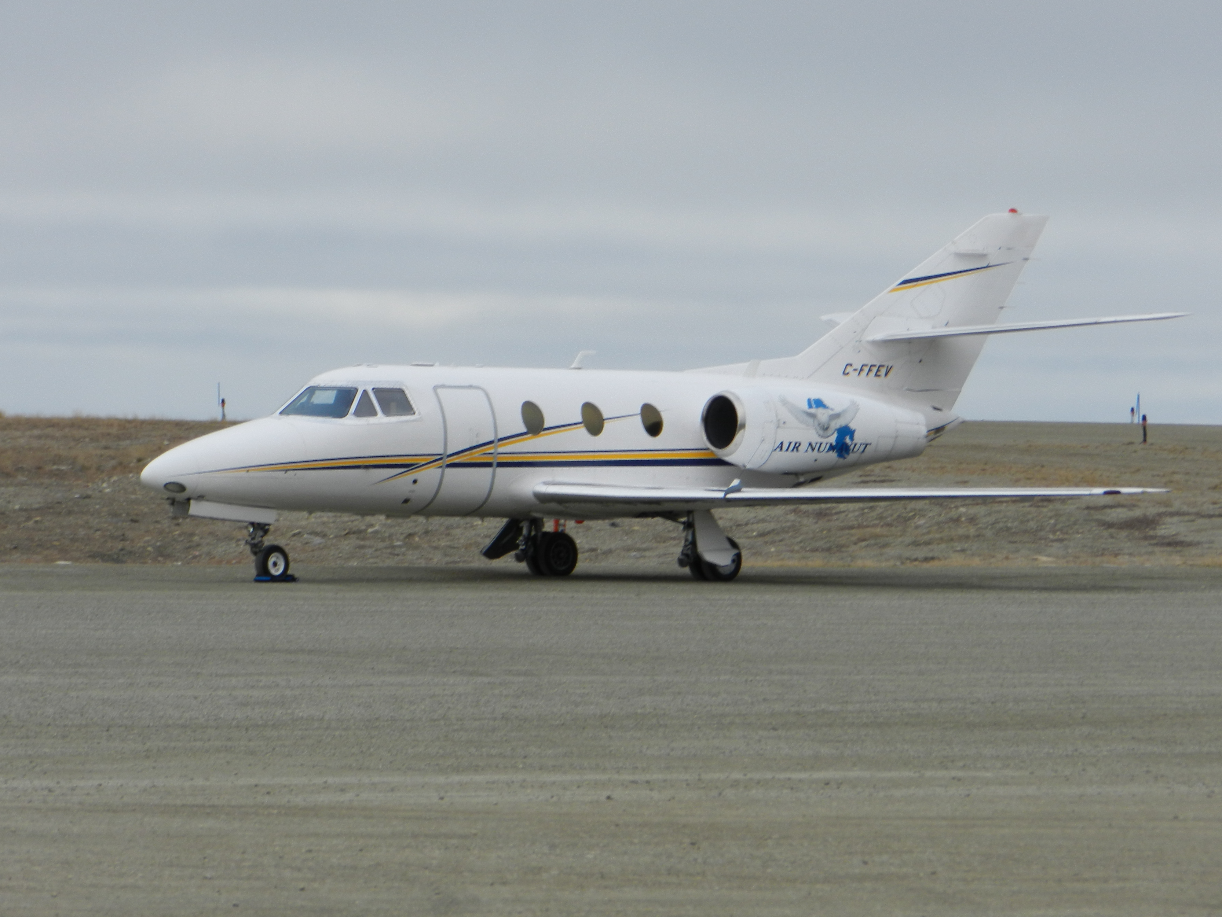 Air Nunavut (Air Baffin) Falcon 10 at Cambridge Bay Airport. Transporting passengers from the Octopus owned by Paul Allen